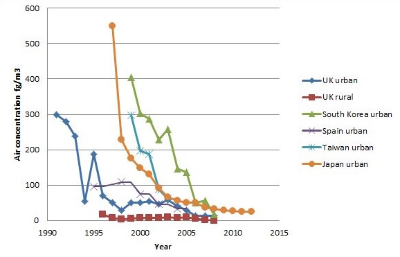 Decrease of dioxins in ambient air in different regions (data from Dopico and Gomez, J Air & Waste Manag Ass. 2015;65:1033)